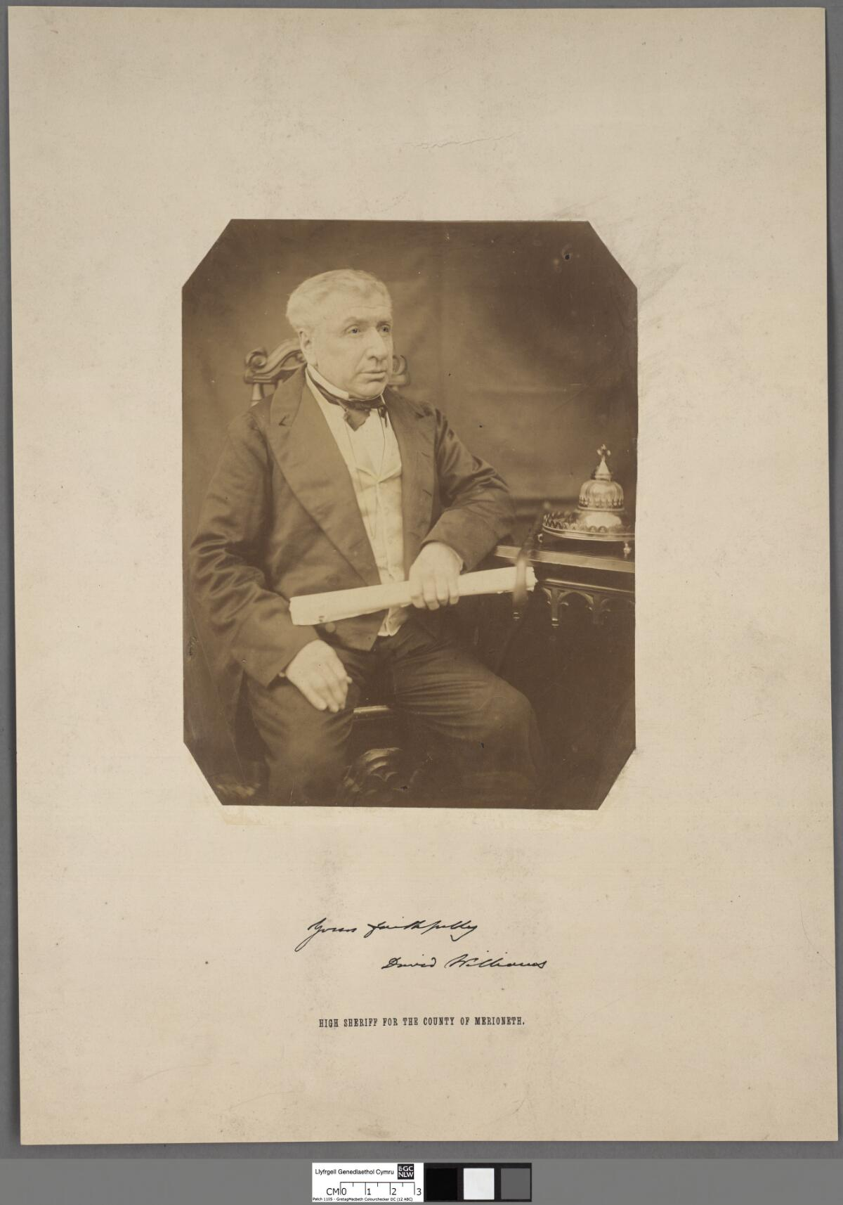 A portrait from the Welsh Portrait Collection at the National Library of Wales. Depicted person: David Williams – Welsh Liberal Party politician